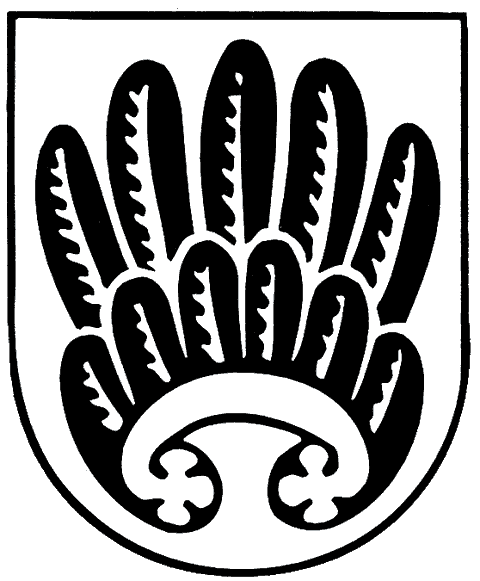 Municipal coat of arms of Kuřim town, Brno-Country District, Czech Republic.